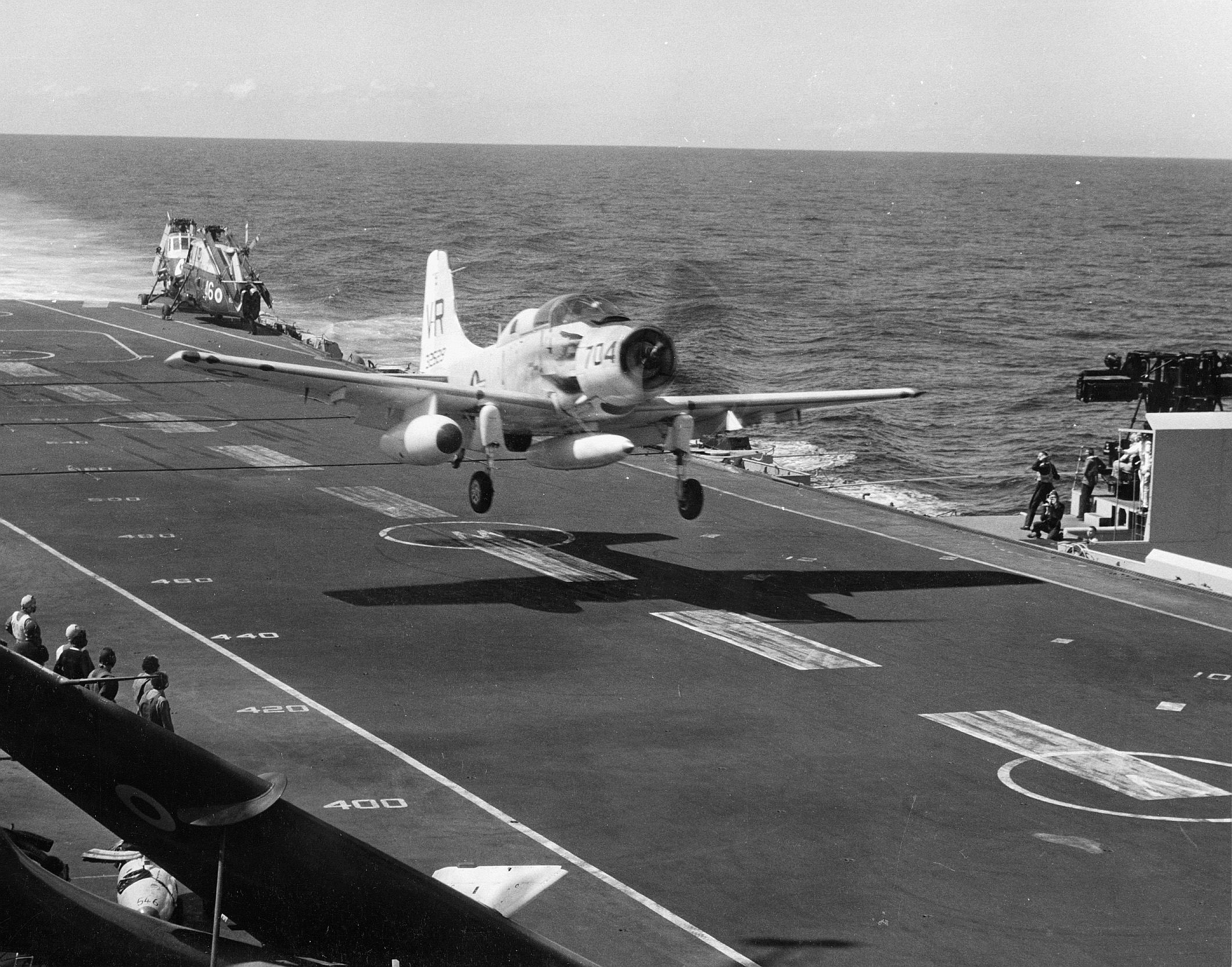 A U.S. Navy Douglas EA-1F Skyraider of electronic warfare squadron VAW-13 Zappers making a touch-and-go landing on the British aircraft carrier HMS Victorious (R38) off Cubi Point, Philippines, in late 1963 during a five-day exercise of U.S., British and Australian carriers. Note the two Westland Wessex helicopters parked on the fantail and the folded wings of a DeHavilland Sea Vixen fighter in the foreground.